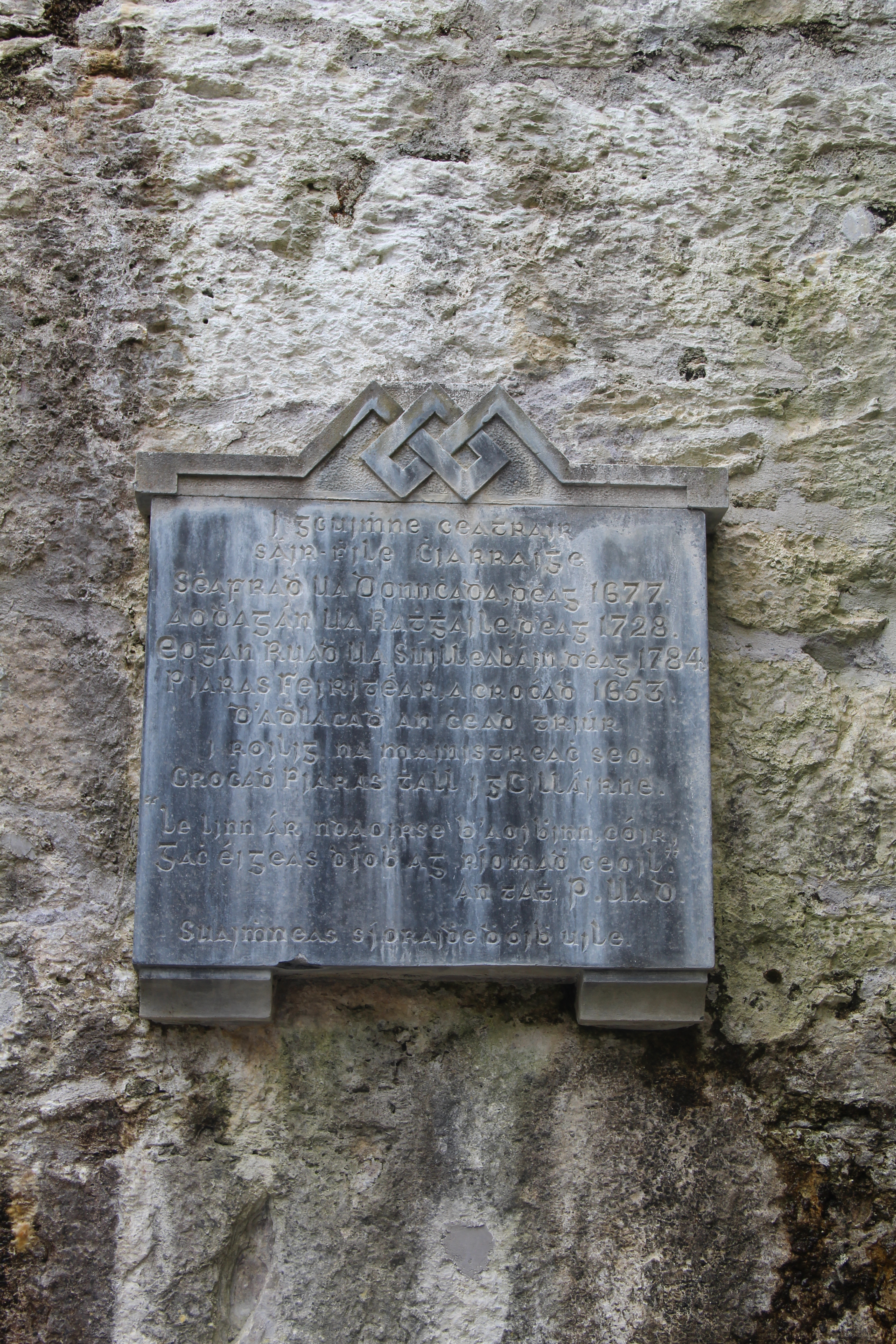 Memorial Stone in Muckross Abbey to Seafradh Ó Donnchadha (1620-85),Aogán Ó Rathaille (1670-1726), Eoghan Rua Ó Súilleabháin (1748-82) and Piaras Feiritéar (c. 1600-1653).